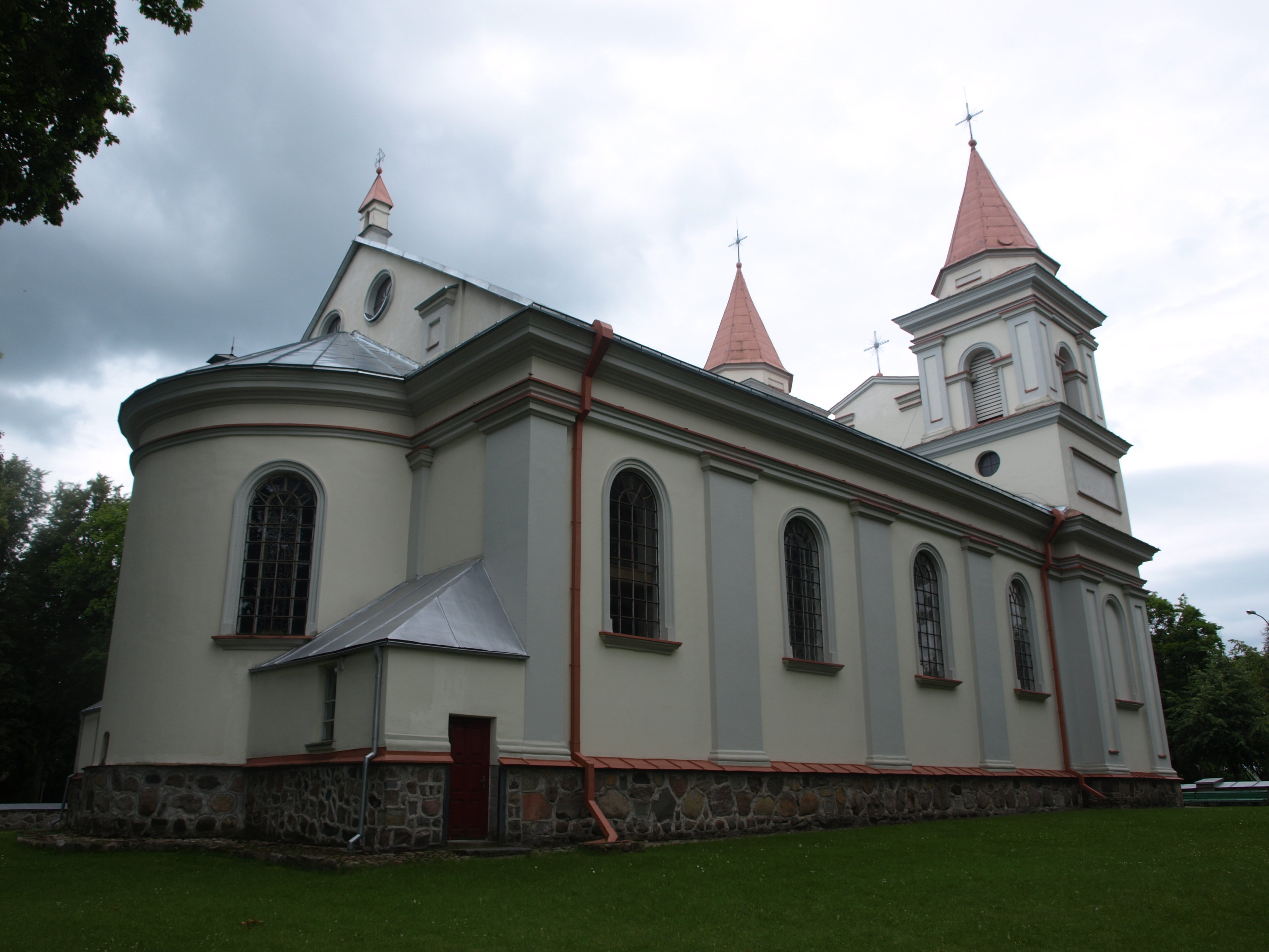 Širvintos church